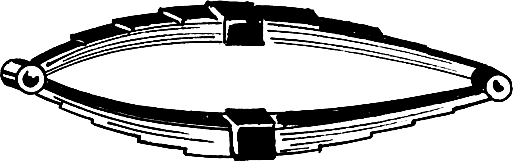 Line art representation of Spring 3